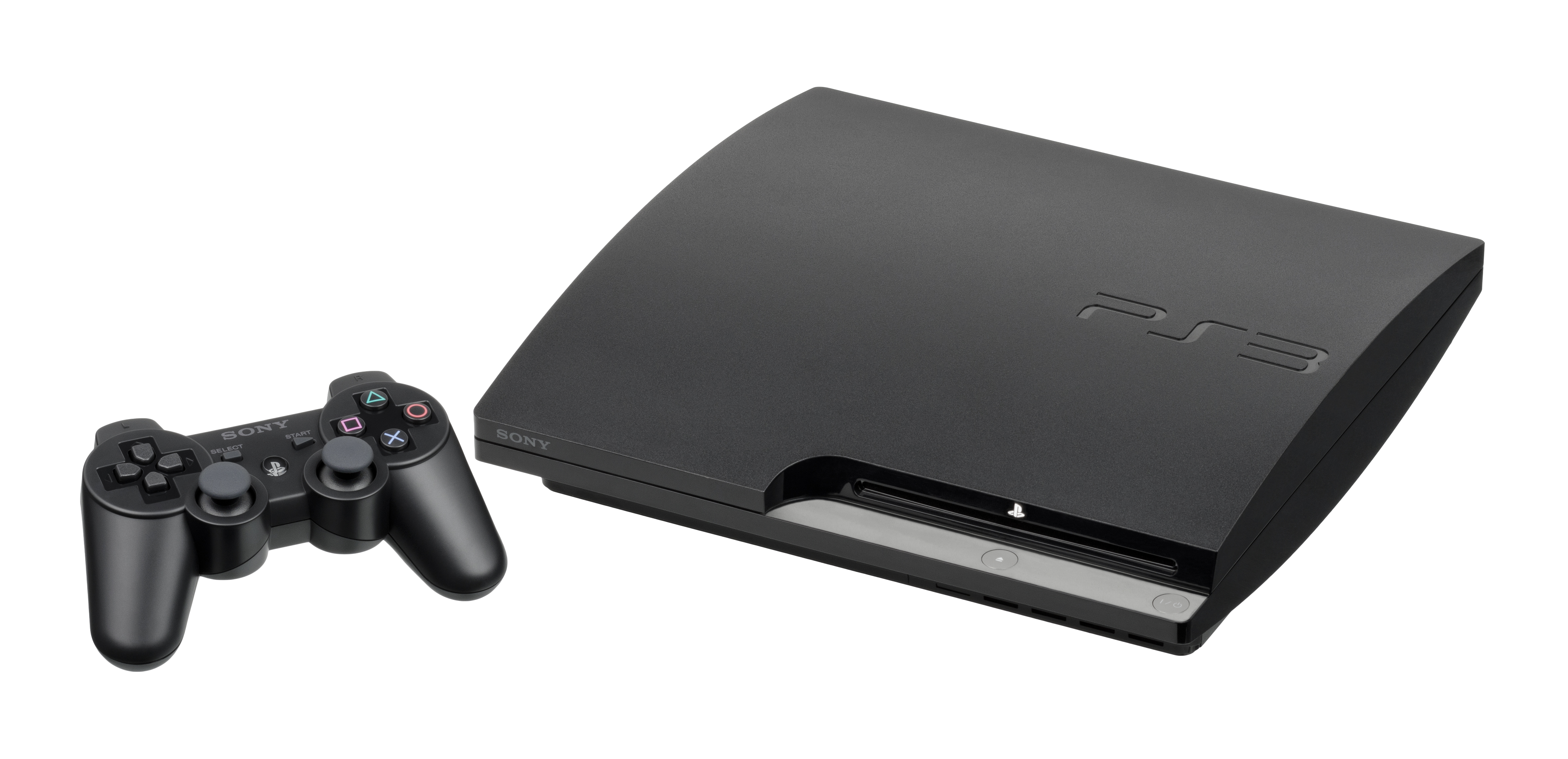 The Sony PlayStation 3 (PS3) video game console, shown with DualShock 3 controller. This is a seventh generation console first released in 2006 as the successor to the PlayStation 2. This model is the "Slim", model 2001A, the first revision of the PlayStation 3 hardware that was made much lighter and smaller than the previous version.